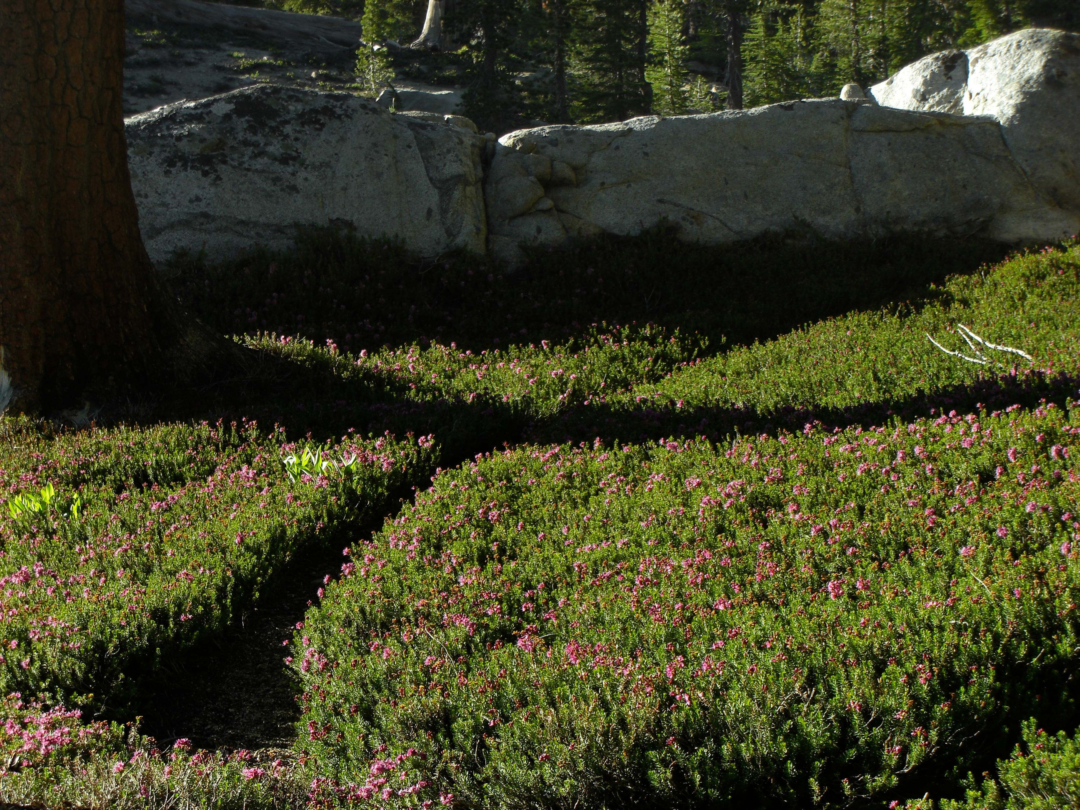 Grouse Lake, Mokelumne Wilderness, California, 20140628